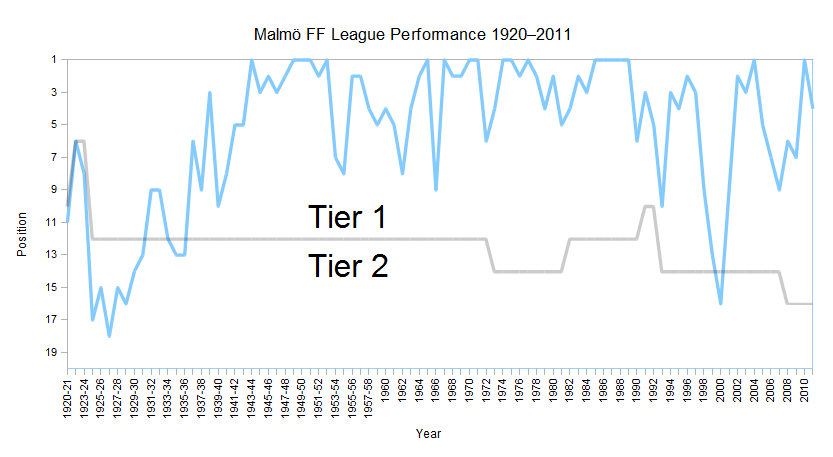 League positions of Malmö between 1920 and 2011.